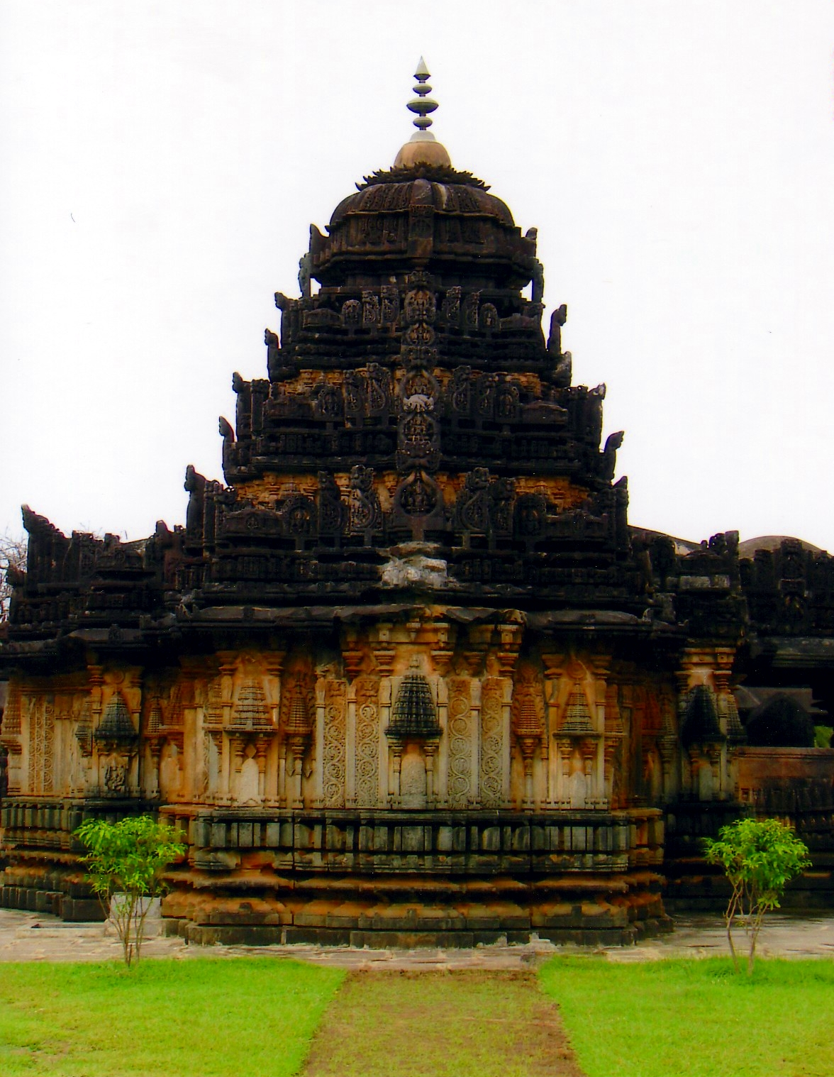 Amrutesvara temple (also called Amrutheswara or Amrtesvara Temple) in Amruthapura, Chikkamagaluru district, Karnataka state, India